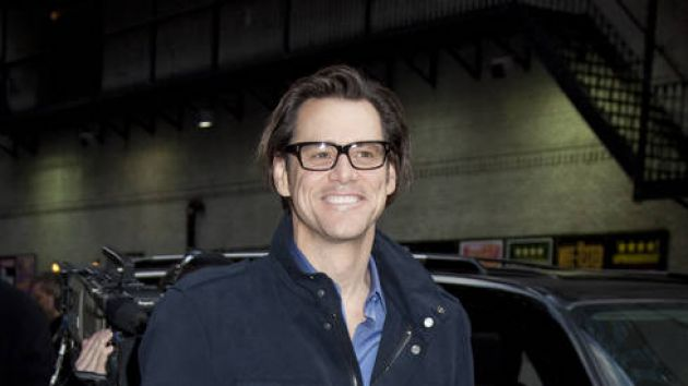 Jim Carrey walking into the studio of the Late Show with David Letterman in 2010